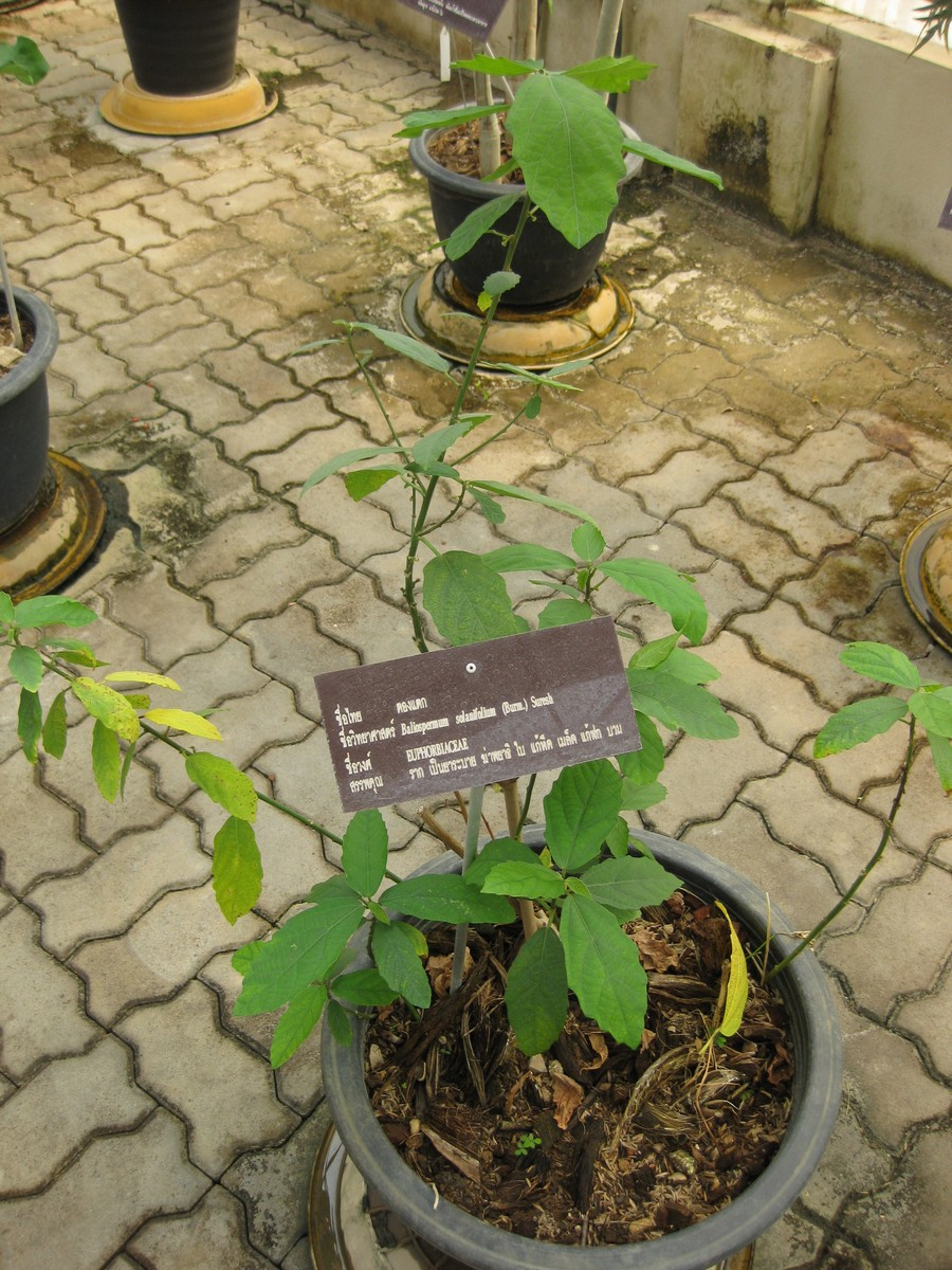 Baliospermum solanifolium (Burm.) Suresh. Photographed at the Queen Sirikit Botanic Garden (Chiang Mai Province, Thailand) in March